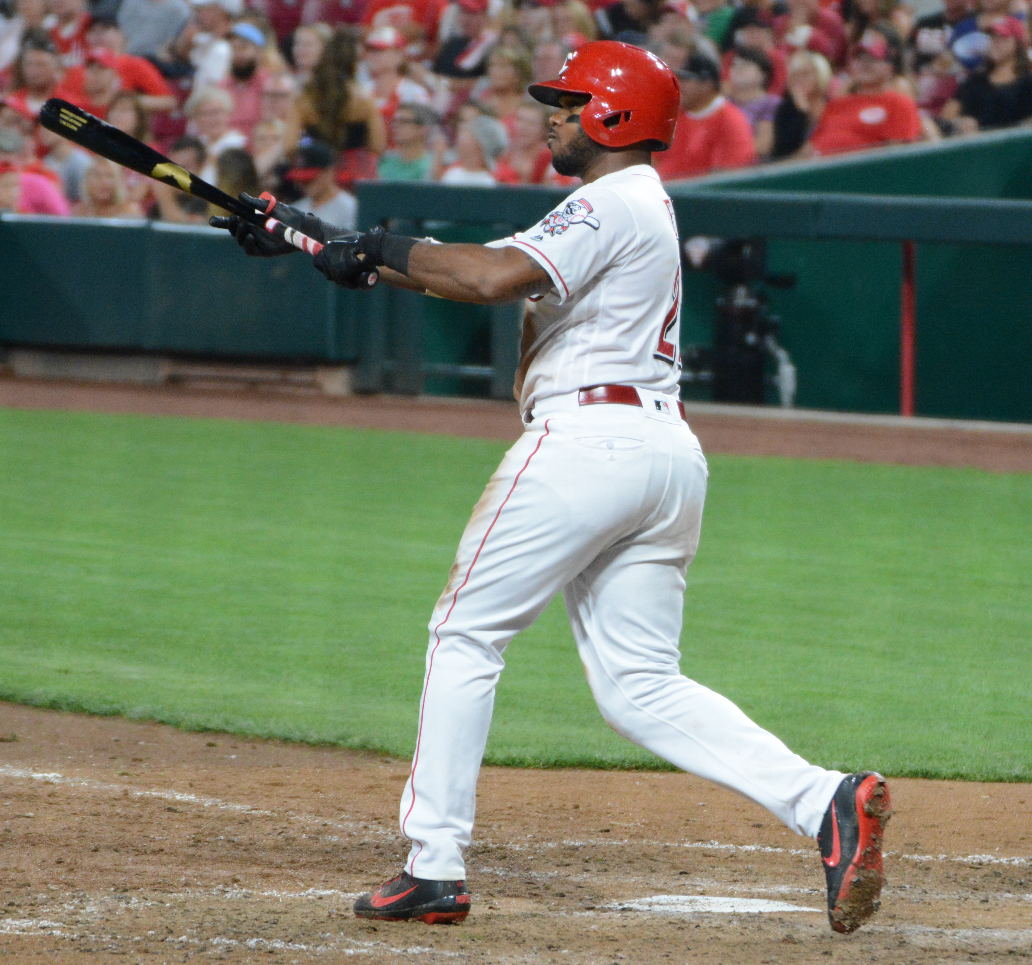 Taken at a baseball game between the Cincinnati Reds and the Arizona Diamondbacks on August 11, 2018 at Great American Ball Park in Cincinnati, Ohio.